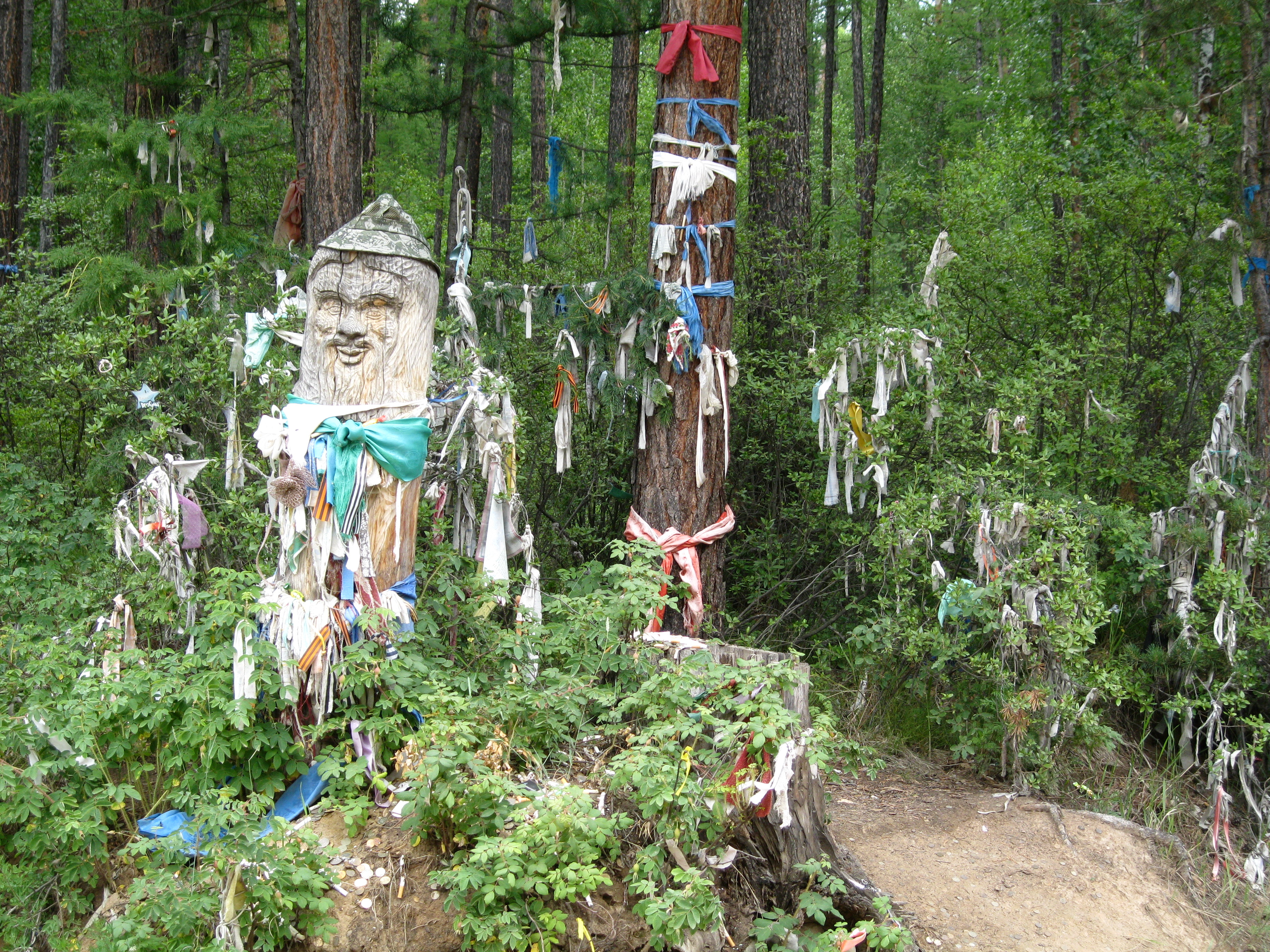 Buryat sanctuary on Burtuy river coast, Buryatia, Russia.